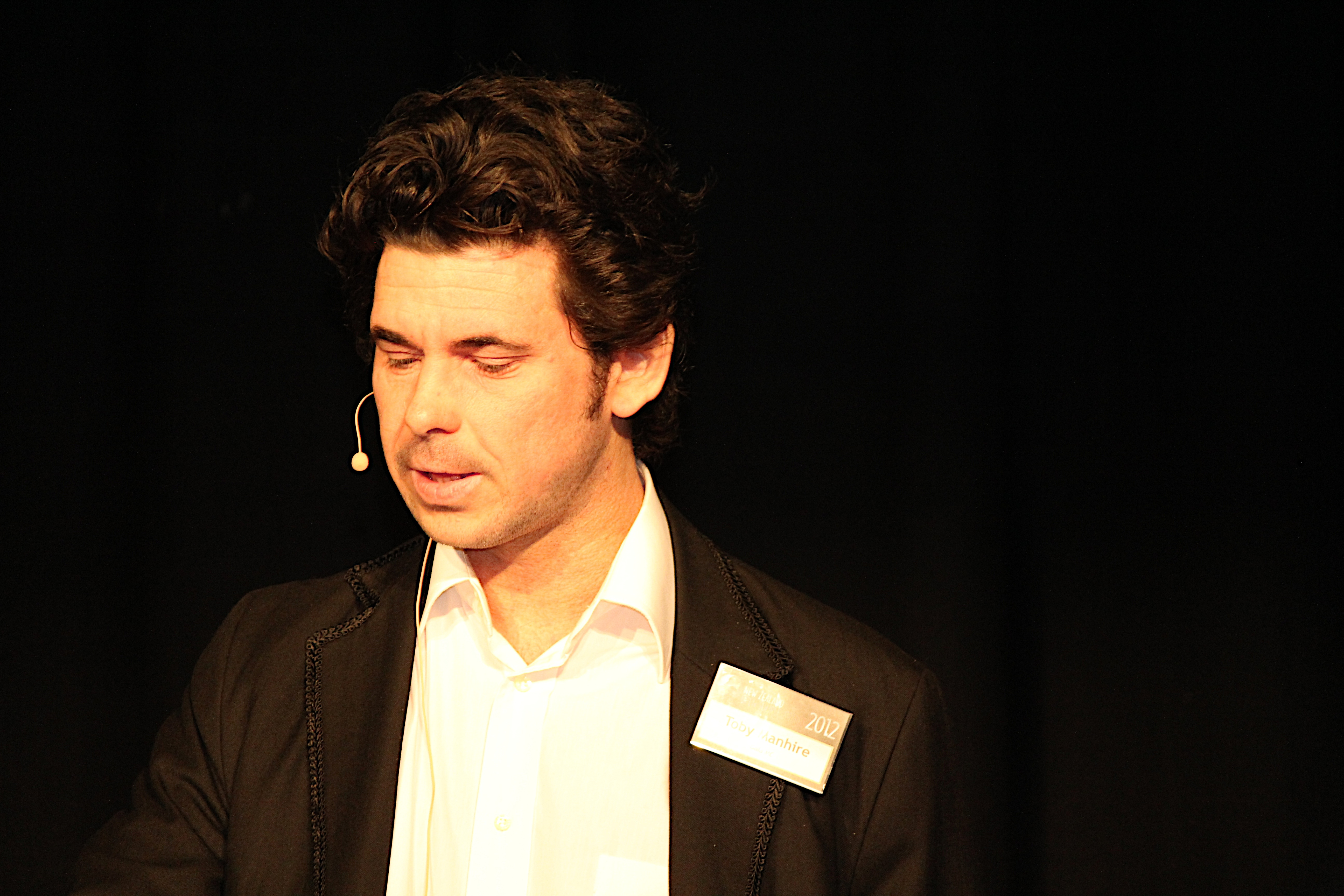 New Zealand Open Source Awards 2012 ceremony in Wellington on 7 November 2012